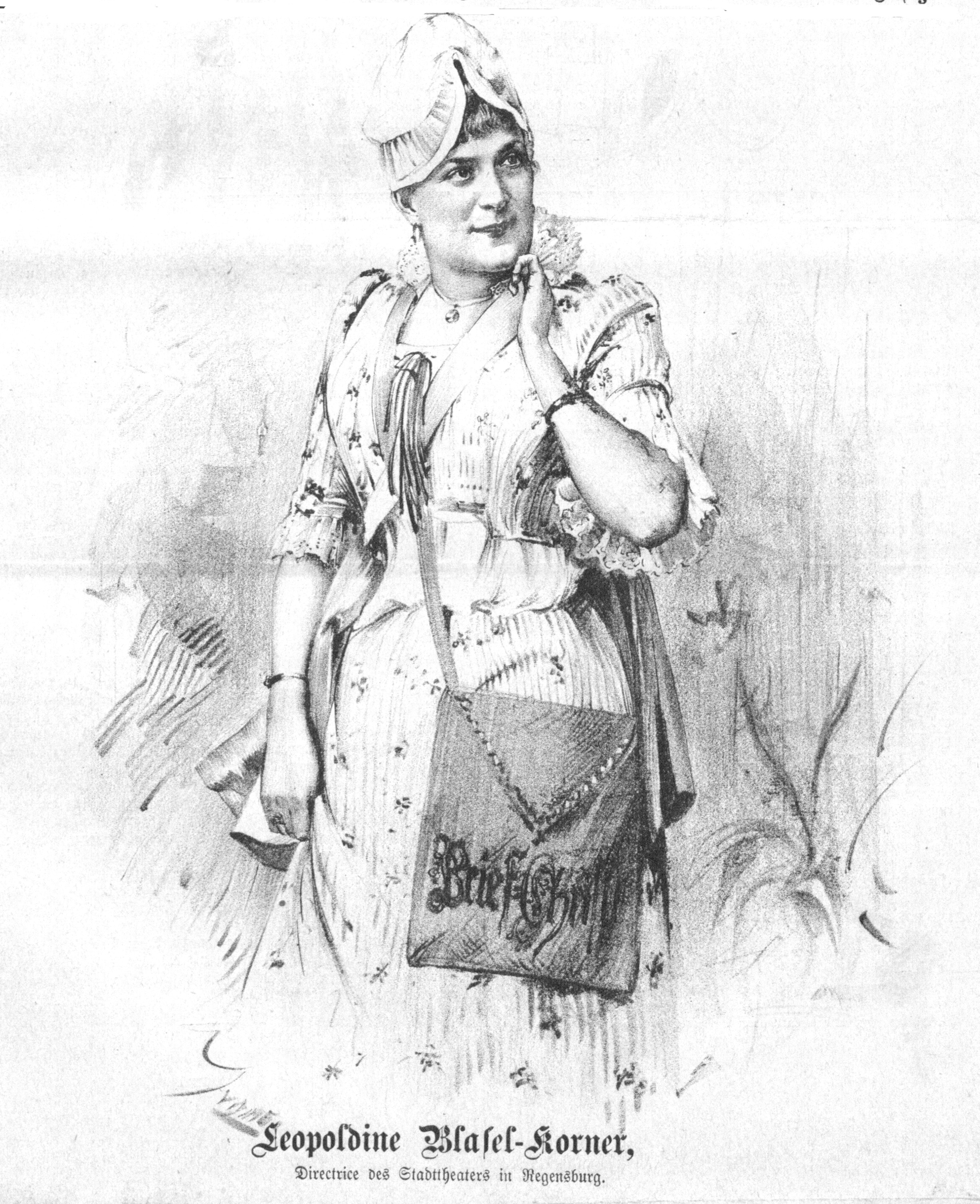 Portrait of Leopoldine Blasel-Körner (1858-1926), Austrian opera singer and actress, captioned as a wife of a director of a theater in Regensburg.